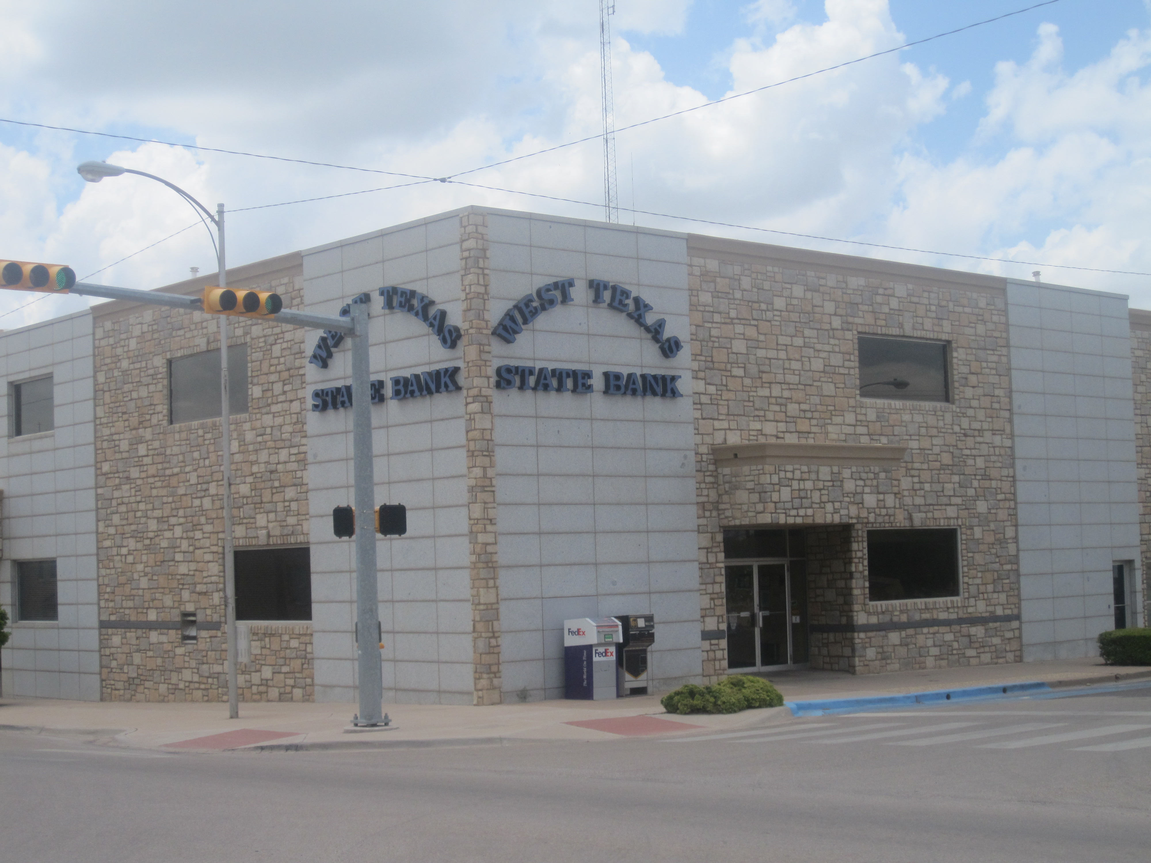 I took photo in Snyder, TX, with Canon camera.